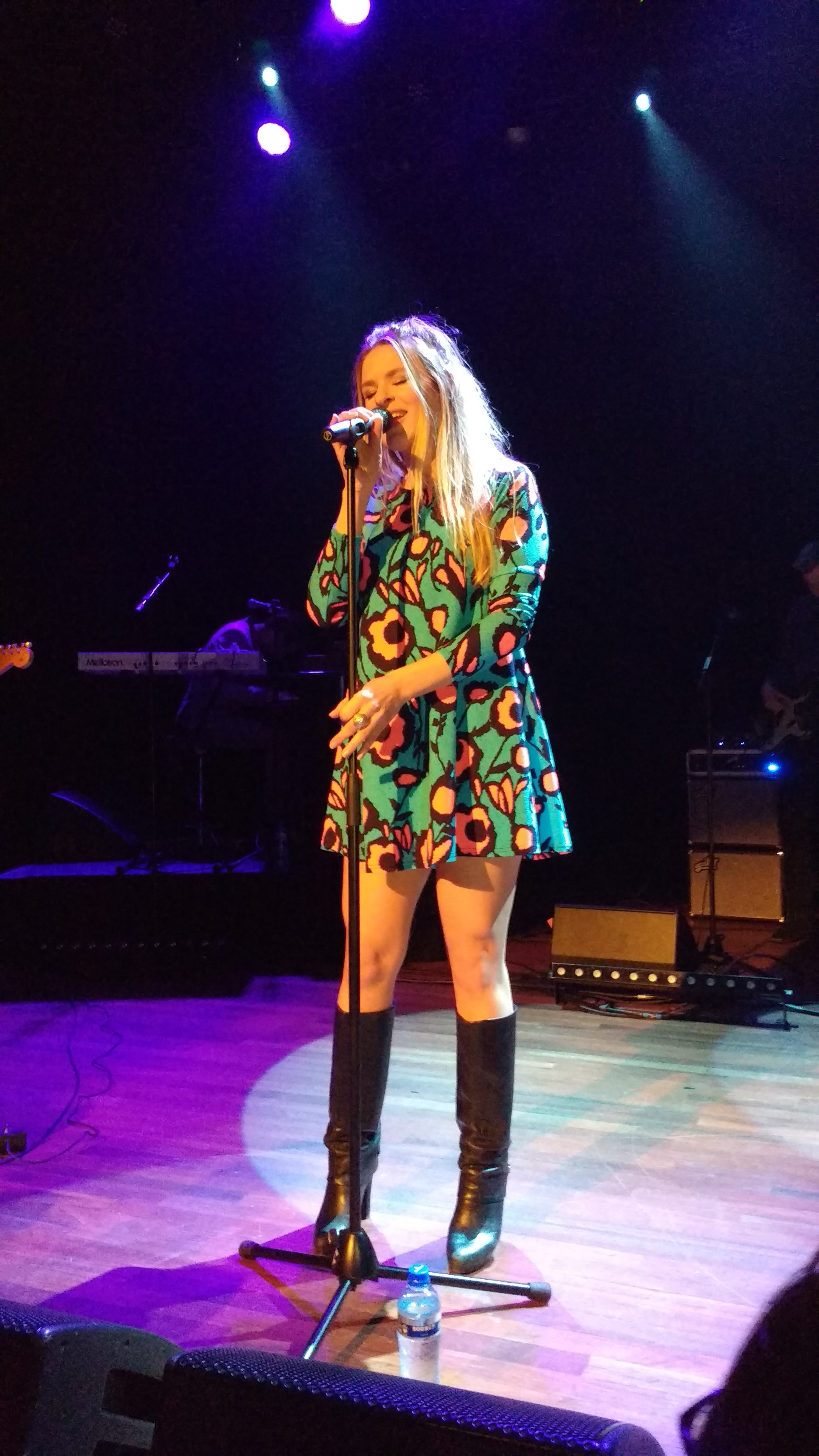 Utrecht, NL, Vredenburg/Tivoli, Cloud Nine, 21 dec 2016